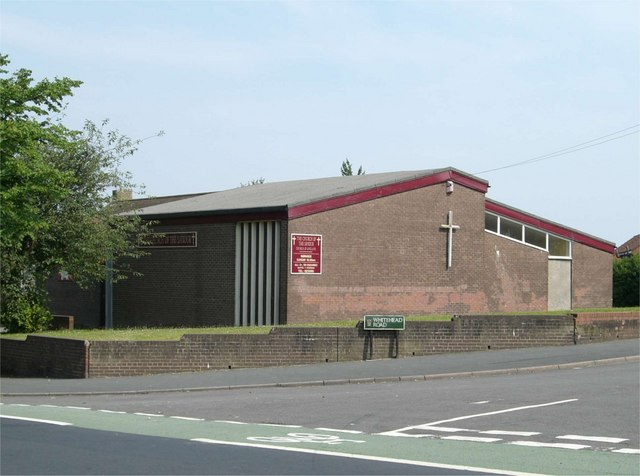 Parish church of the Saviour, Springbank Road, Chell Heath, Staffordshire, seen from the northwest